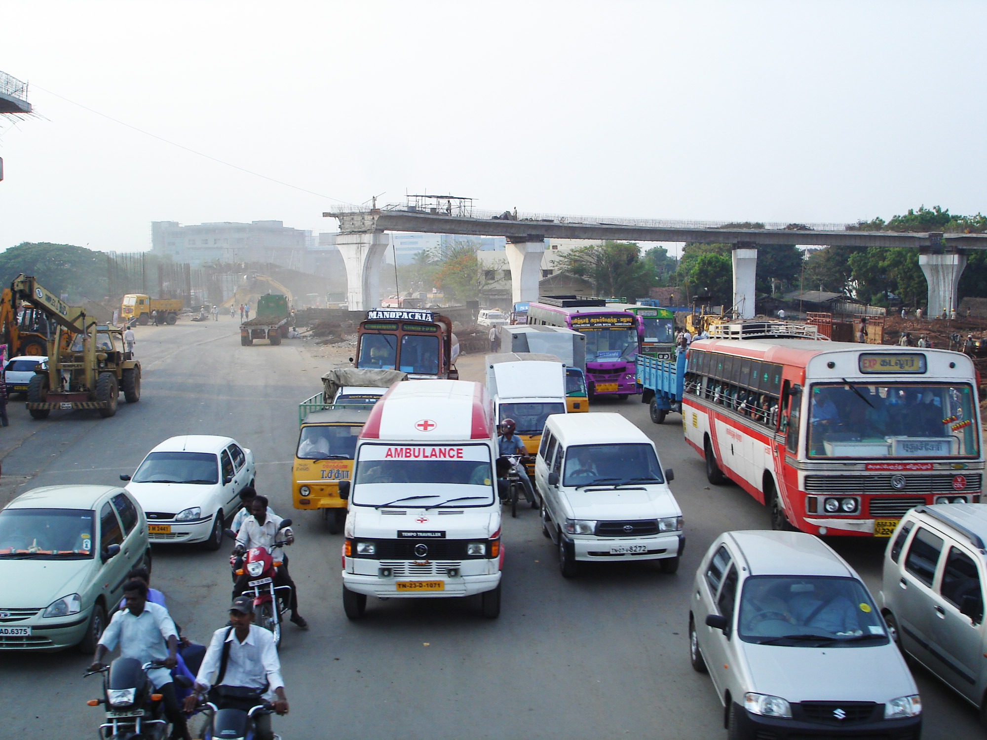 Construction work on the Kathipara interchange. Looking towards the Inner Ring Road